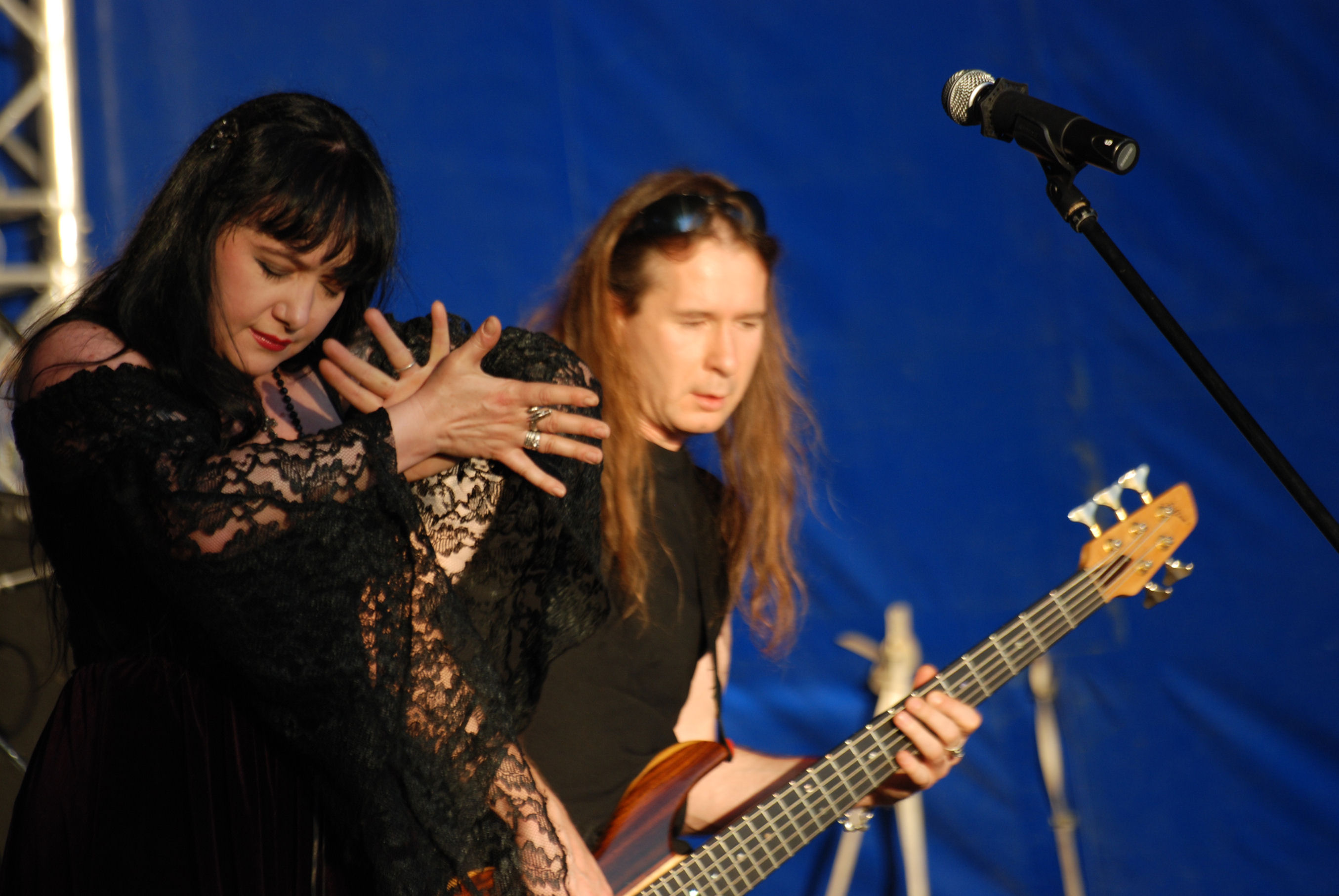 Closterkeller during Castle Party 2008